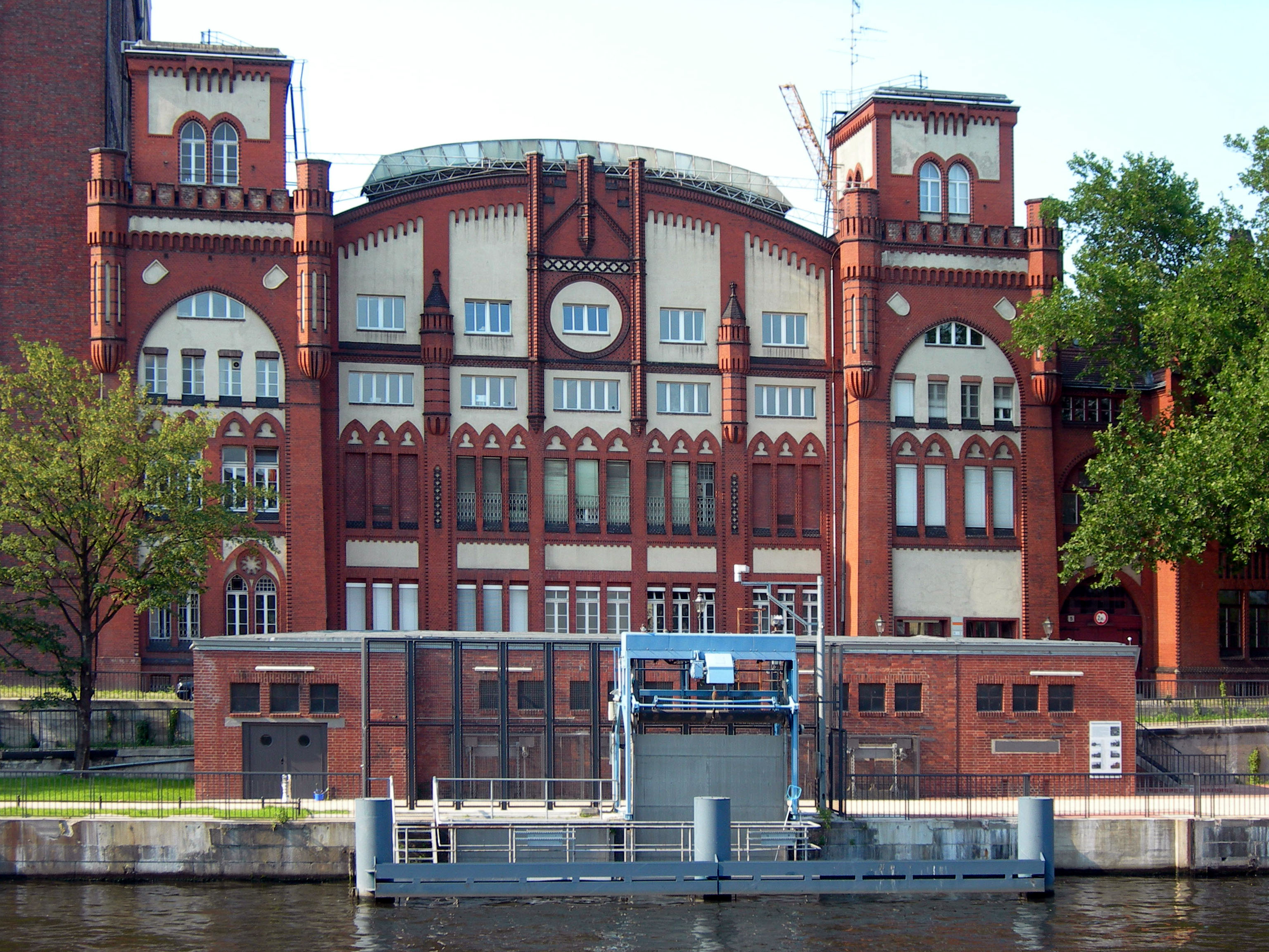 Powerplant in Berlin-Charlottenburg operated by Vattenfall. Administration Building